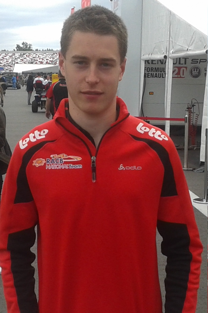 Stoffel Vandorne at Moscow Raceway in 2013